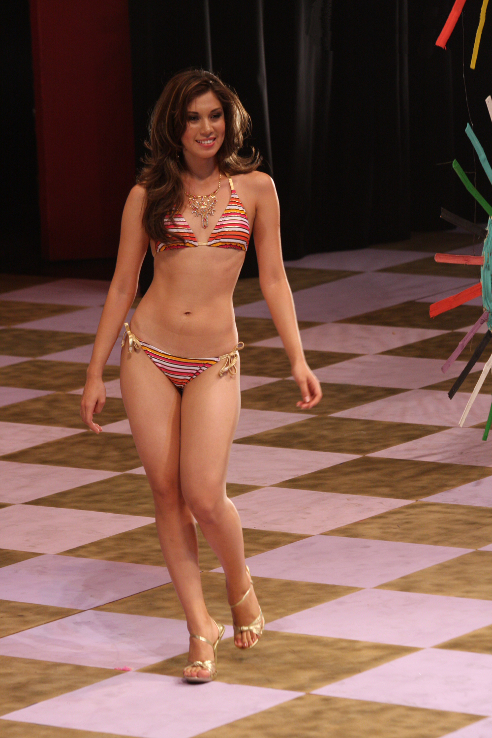 A woman in a bikini at a Beauty pageant 7 March 2009